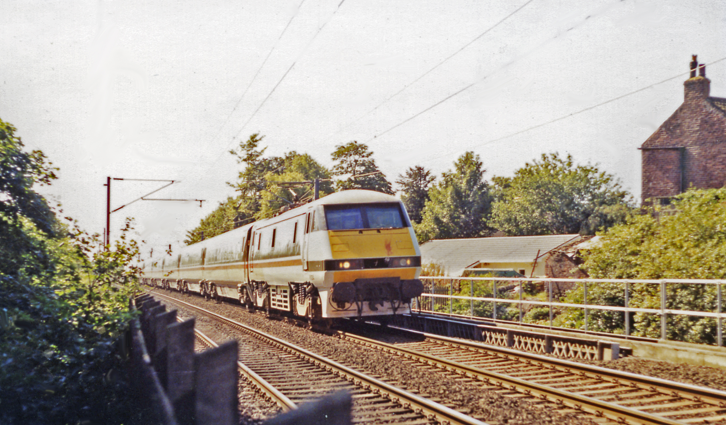 Down IC225 express on the ECML passing site of Aycliffe station, 1991. View southward, towards Darlington, York and the South: ex-NER section of the recently electrified East Coast Main Line. There was trace of the station, which had been closed nearly 40 years before, on 2/3/53.